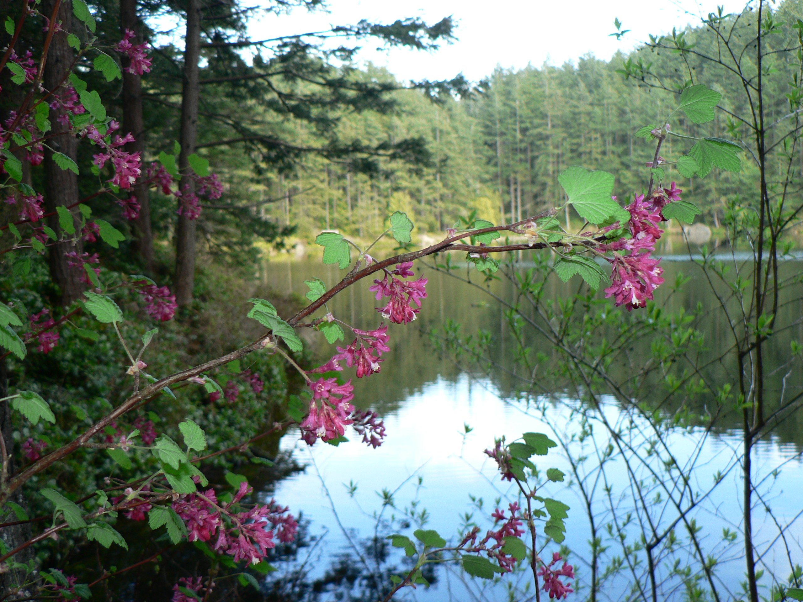 Redflower Currant, Red-flowering Currant